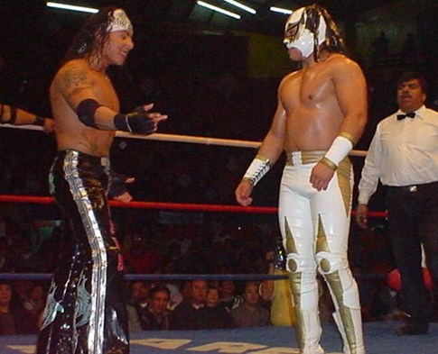 Juventud Guerrera face to face with Volador Jr.